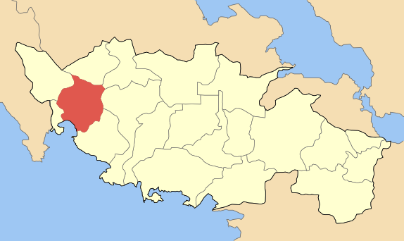 Locator map of Distomou municipality (Δήμος Διστόμου) at Voiotias perfecture, Greece.